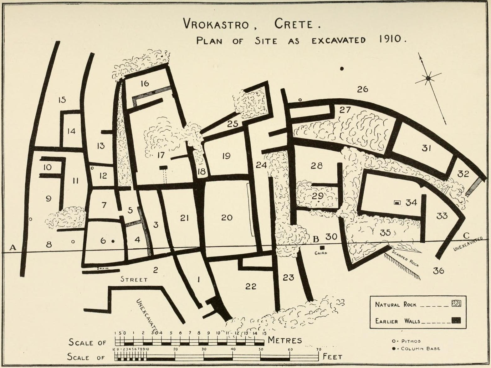 Map of Vrokastro, an archaeological site in Eastern Crete, Greece, as excavated in 1910